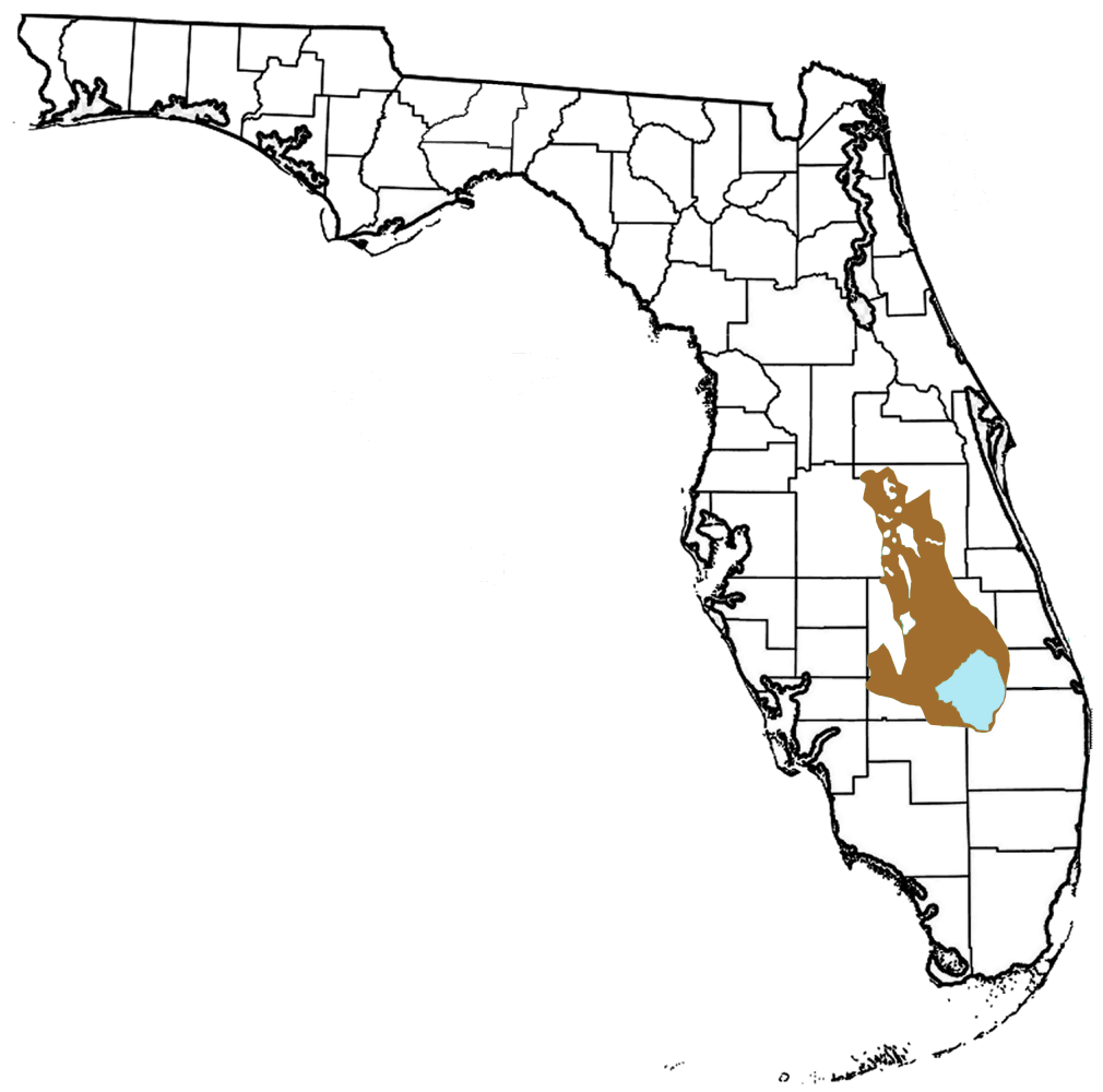 Depiction of the Kissimmee/Okeechobee Lowland. This map was created using overlay of U.S. EPA map.